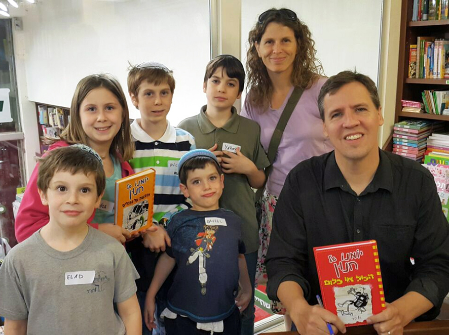 Wimpy Kid author, Jeff Kinney, during a book signing event in Jerusalem Israel, November 2016.